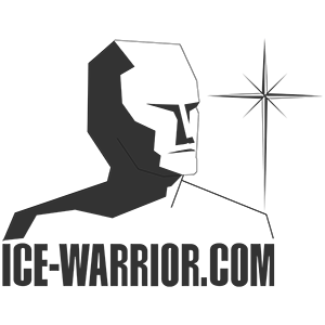 Ice Warrior Project Logo